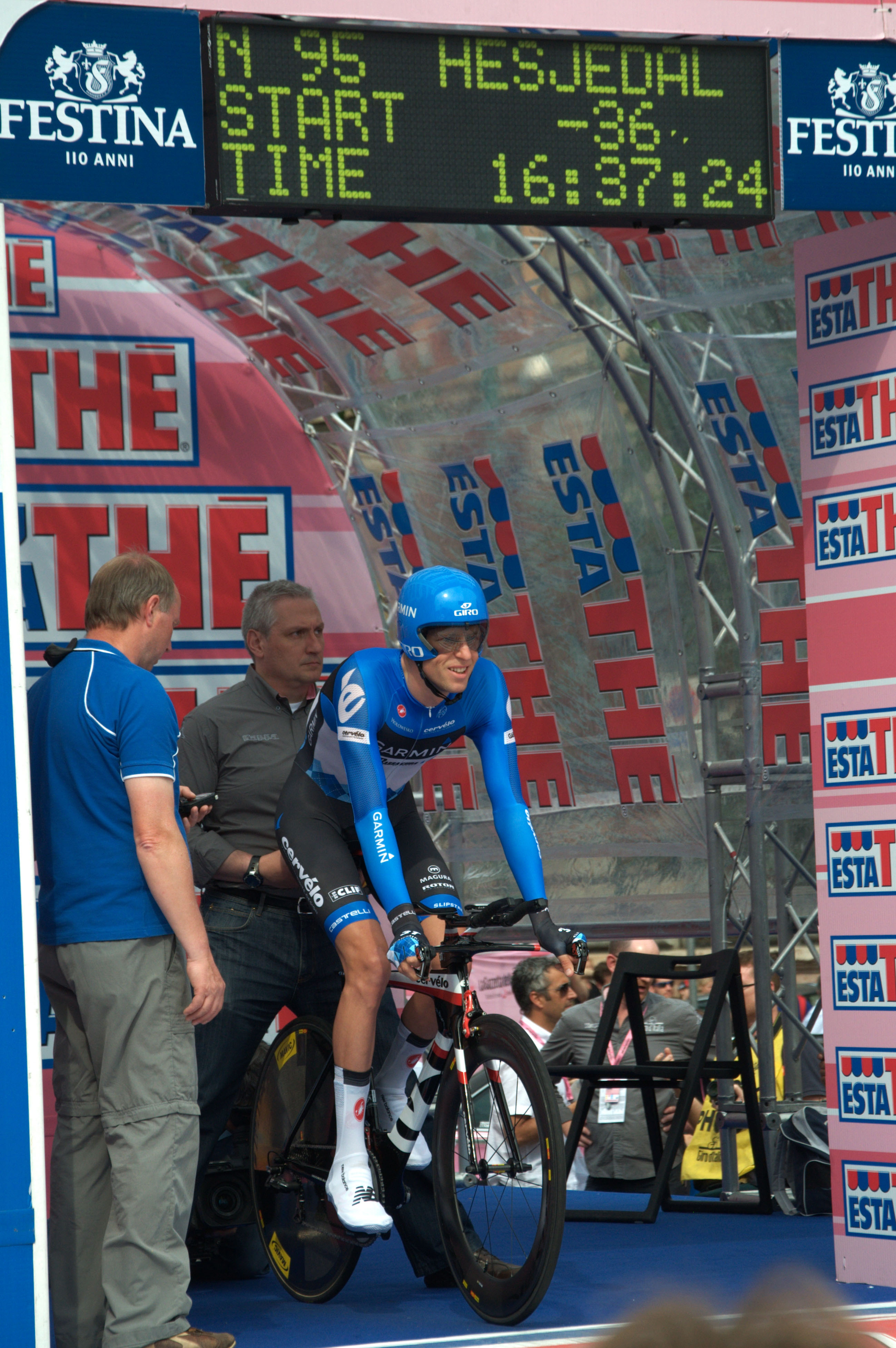 Ryder Hesjedal before the start of the last stage of Giro d'Italia 2012 in Milan. This Individual Time Trial stage let him win the final classification and the final pink jersey.